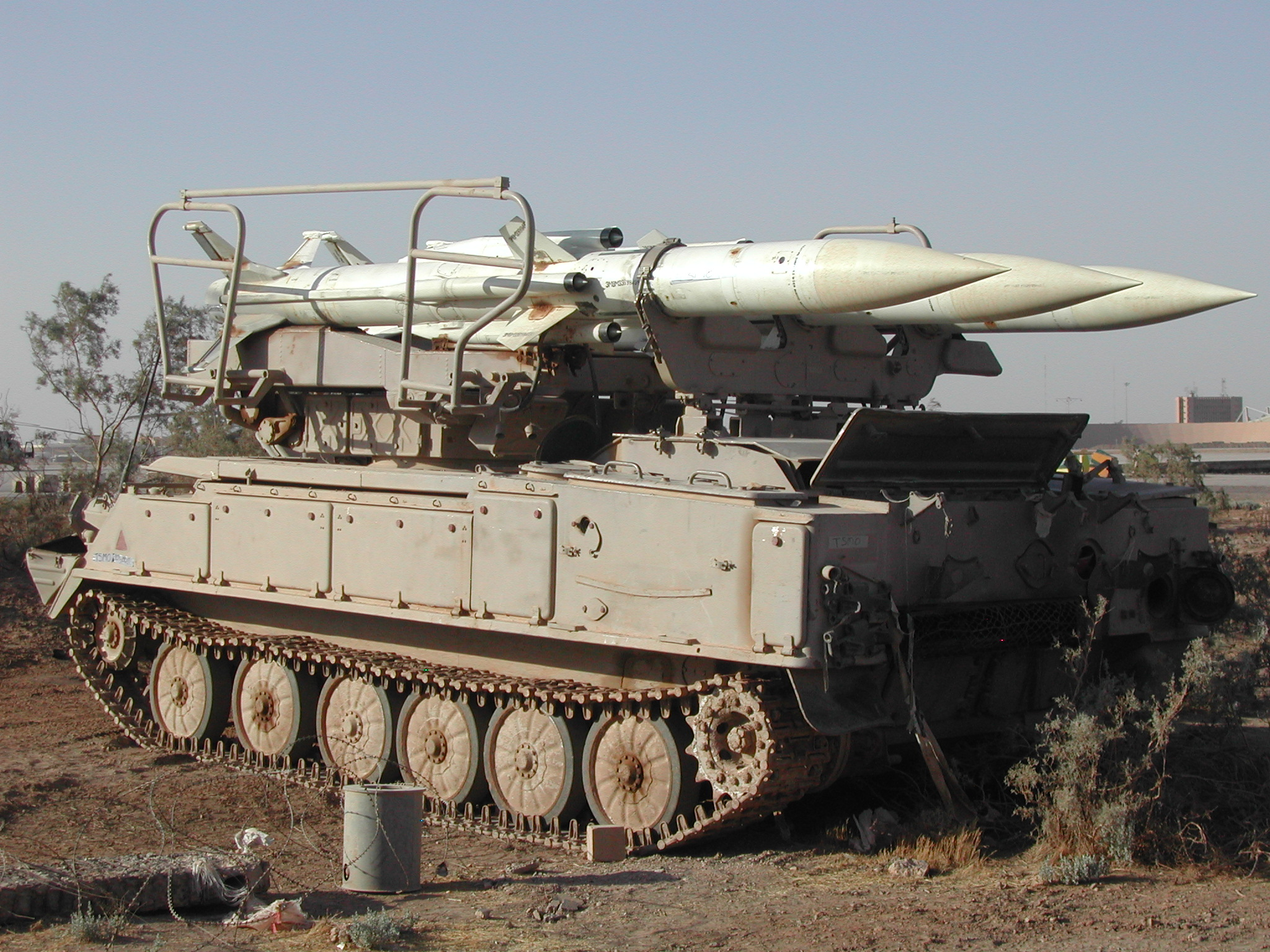 Captured Iraqi SA-6 Gainful low-to-medium altitude surface-to-air-missiles (SAM) on their transporter-erector-launcher (TEL)